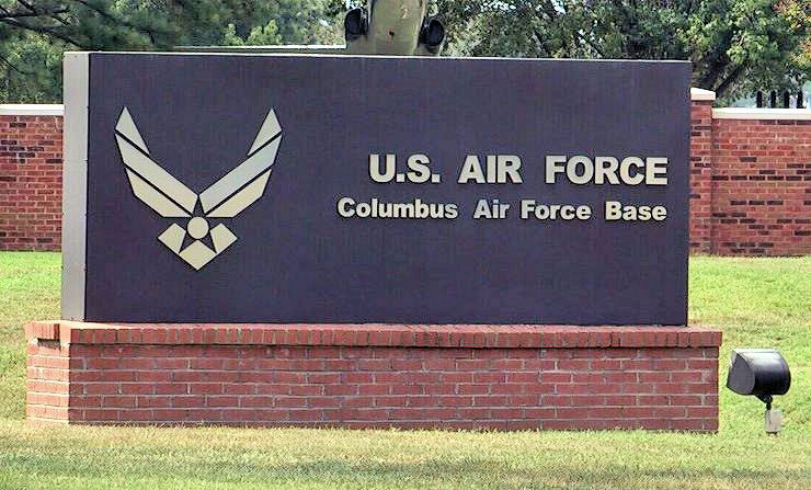 Columbus AFB entrence sign